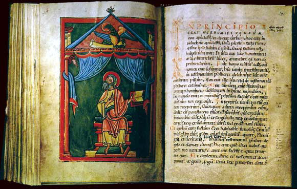 Two pages with miniature of Saint John in the Susteren Gospel Book in the church treasury of the Abbey of Susteren, the Netherlands. The gospel is from the 11th or 12th c.; the list was added in 1174 when Imago of Loon, abbess of Susteren, donated the book to the abbey.